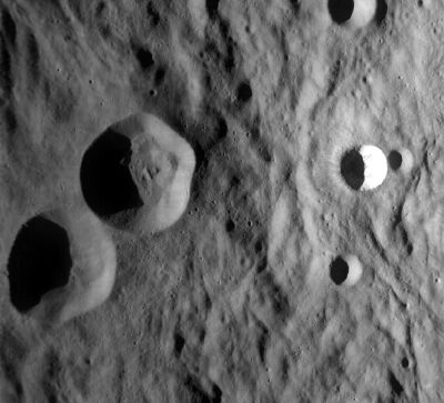 LROC image WAC No. M118159663ME. Lents is the leftmost crater of the pair - next to Lents C (also note the rayed crater east of Lents C that Danny Caes gives mention to below). Calibrated by LROC_WAC_Previewer.